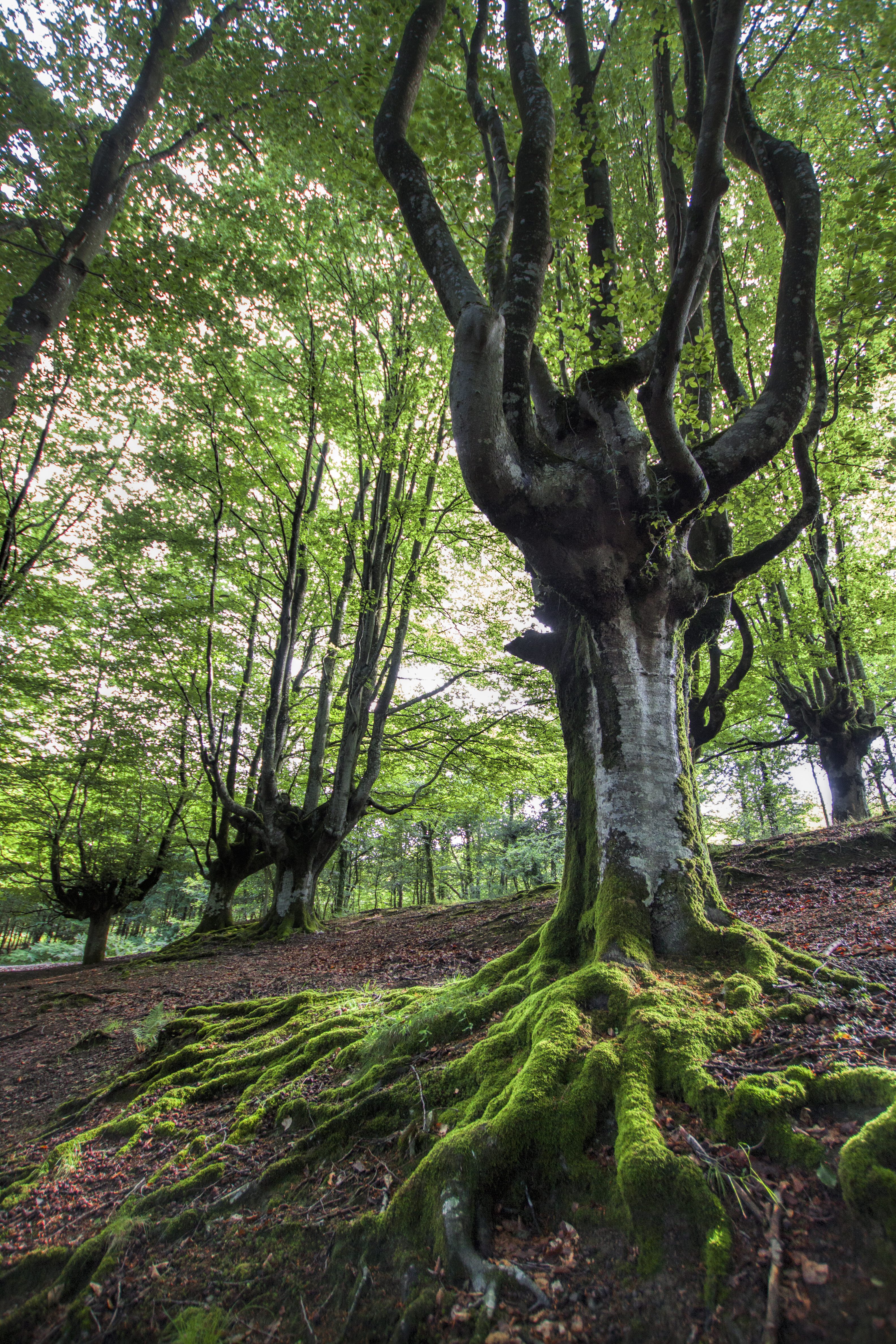 This is a photography of a Site of Community Importance in Spain with the ID: ES2110009. Natura2000 entry, EEA entry